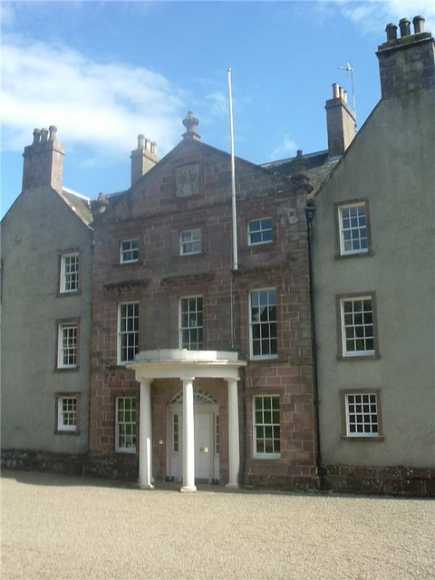 Arbuthnott House With portico